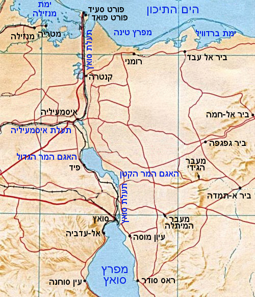 Maps of the Suez Canal